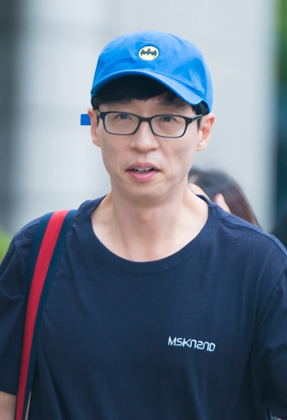 Yoo Jae Suk going to work at Happy Together on August 19, 2017.